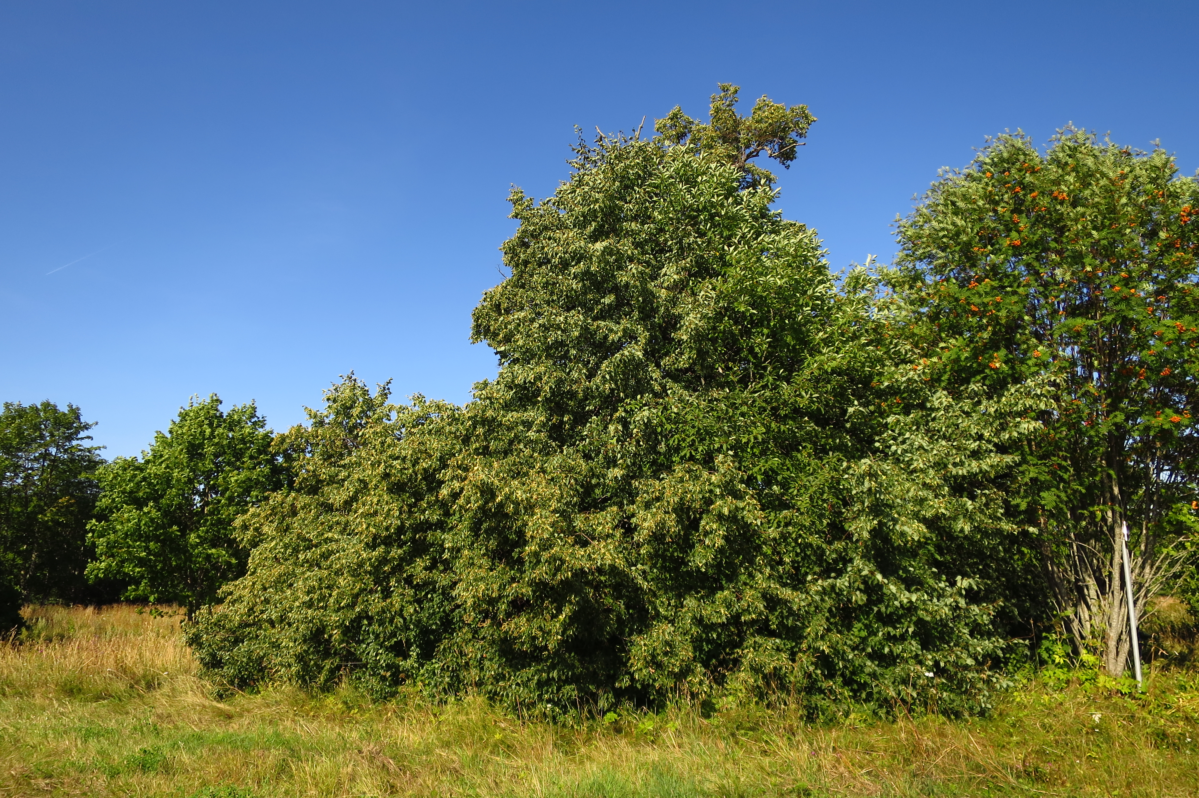 Täri pärn Saaremaal Liikülas